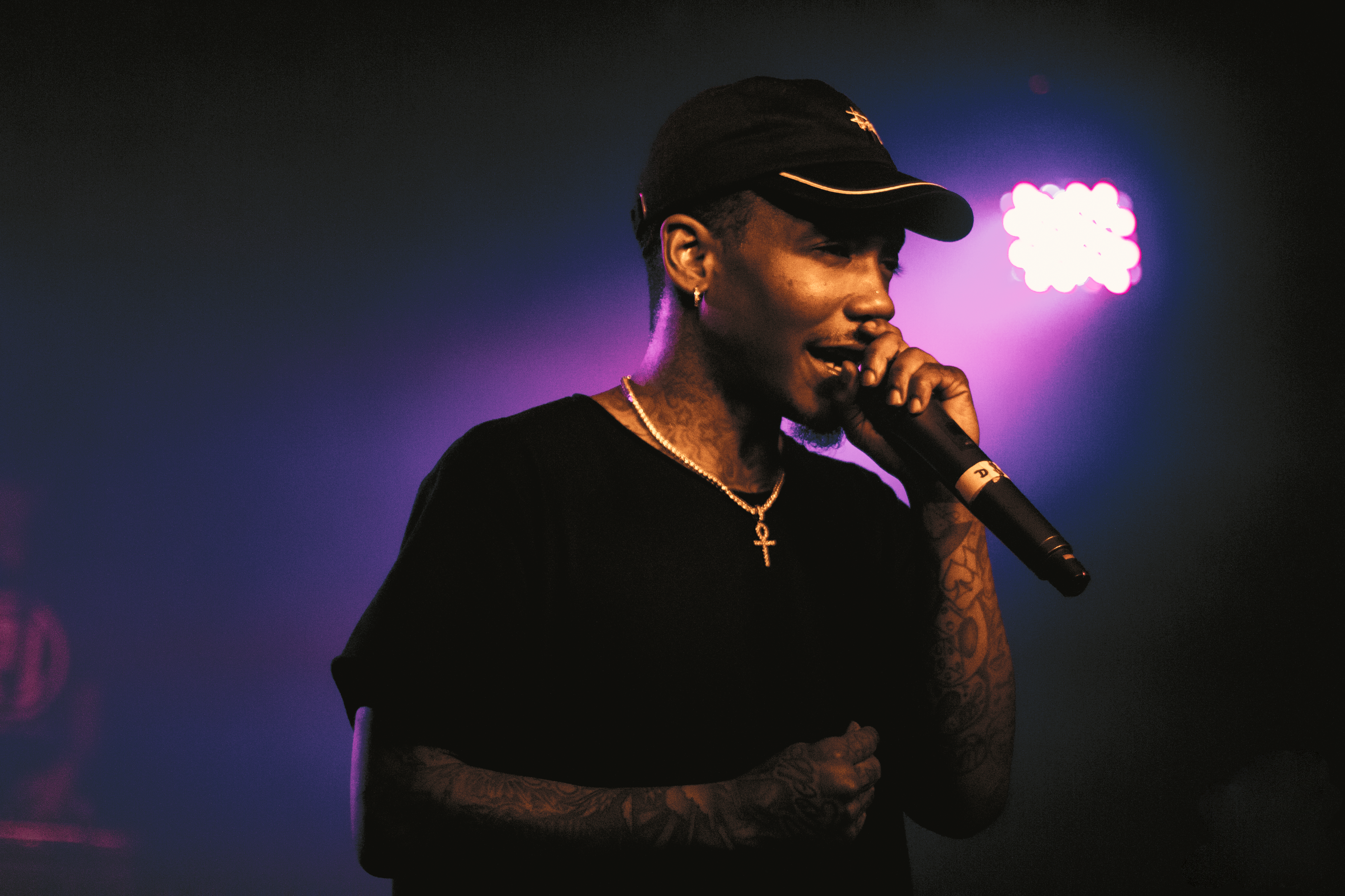 Dizzy Wright live with support from Marlon Craft Shot for the Come Up Show Shot by Mac Downey (@mac.downey) Shot at the Velvet Underground on Feb 15th, 2018